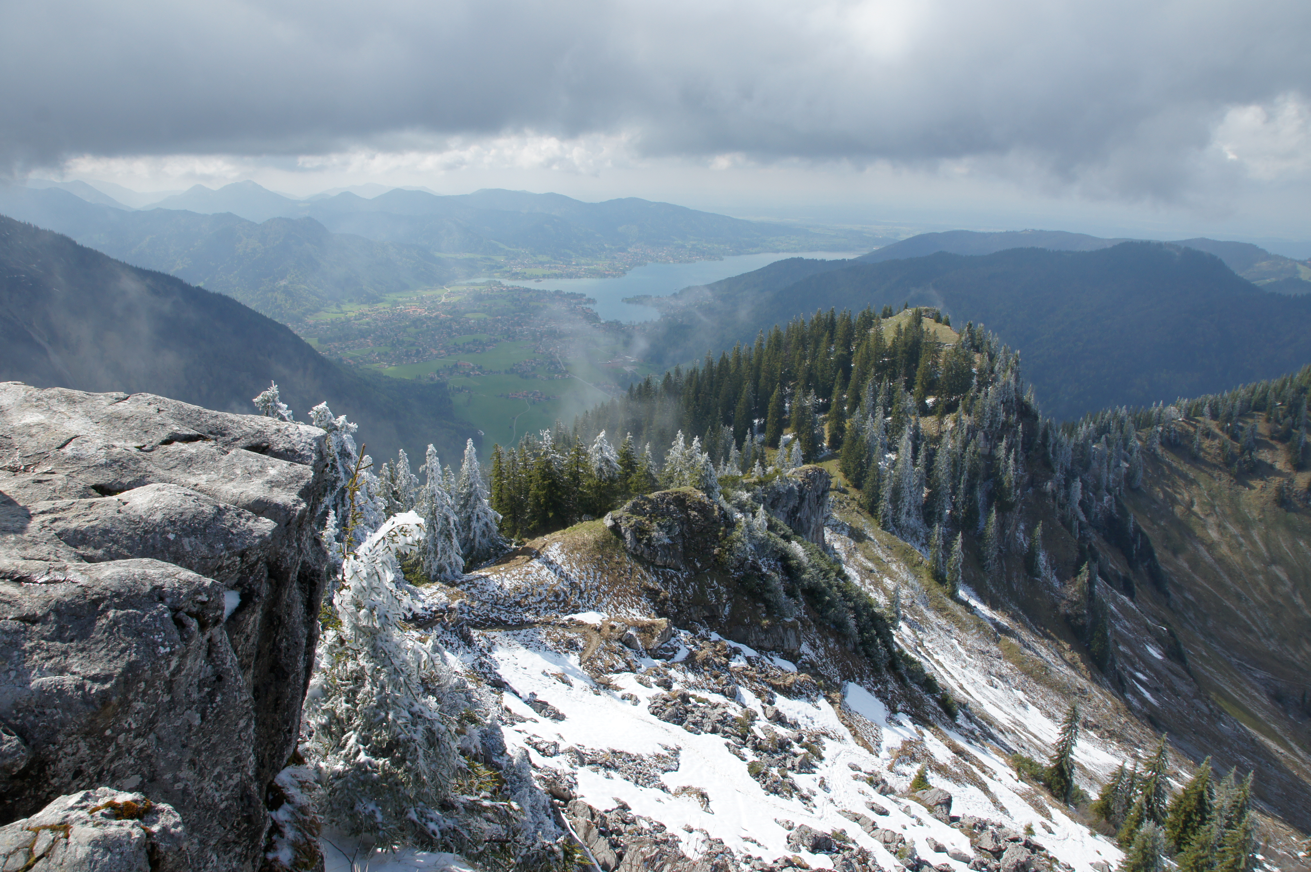 The south end of the Tegernsee, Bavaria/Germany, after the last snowy weekend in May 2014. The picture was taken from the mountain Bodenschneid (1669 m) which is seen in the foreground.